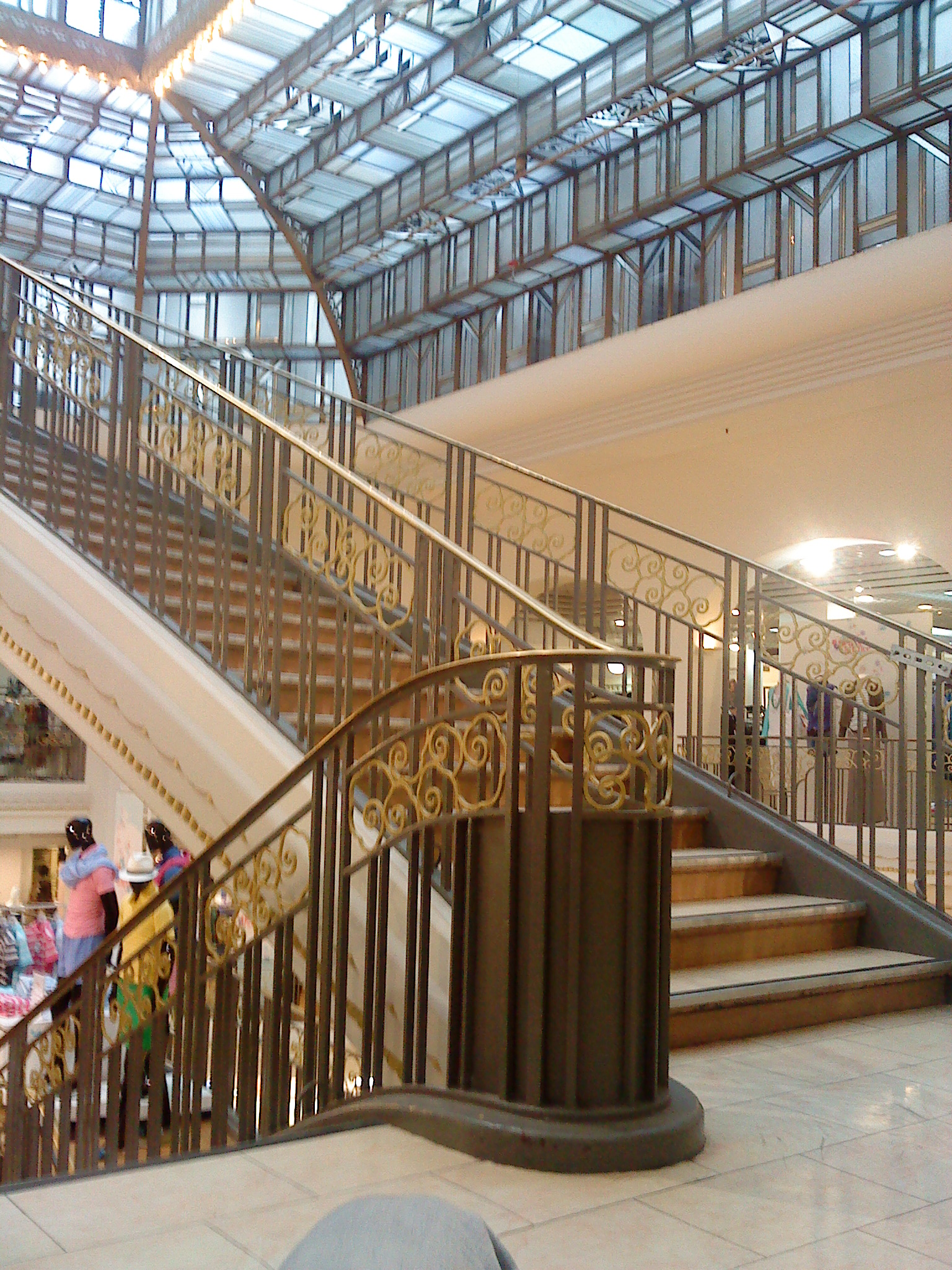 Nouvelles galeries, Angers